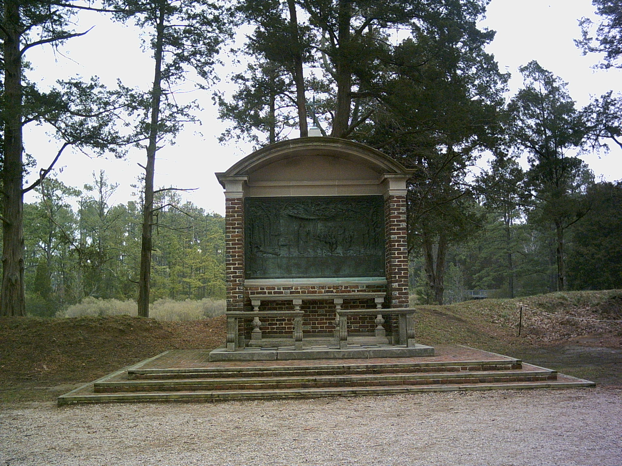 Robert Hunt Memorial Shrine at Jamestown